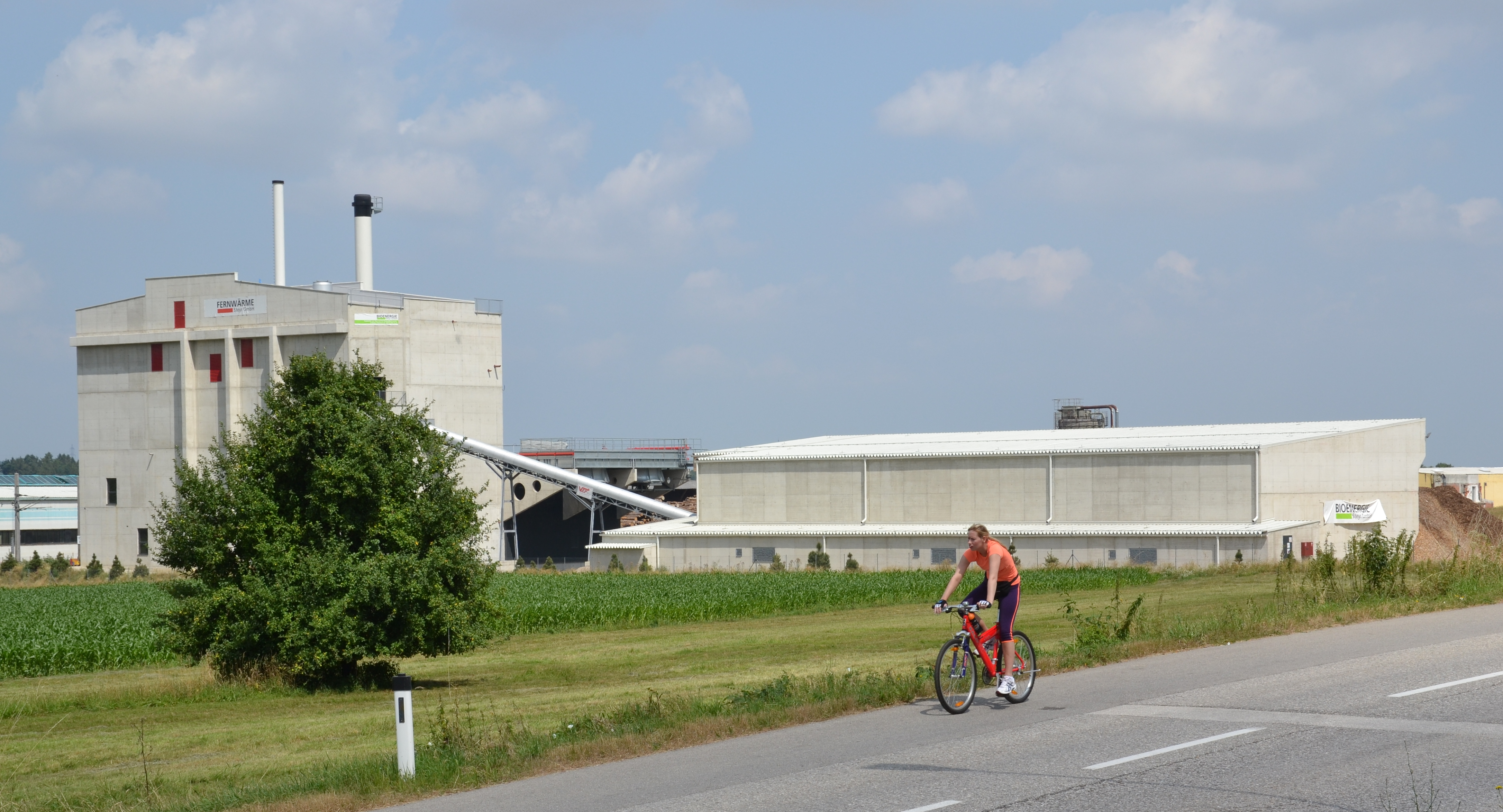 Biomass Power Plant Steyr